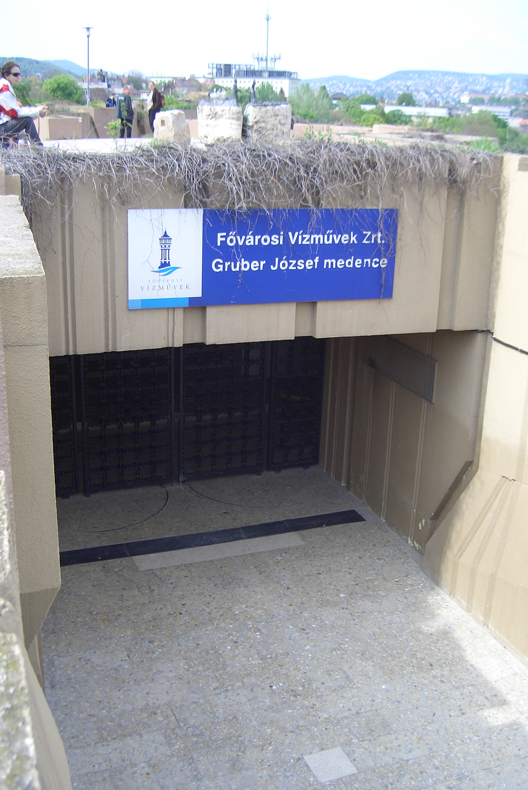 Water reservoir of the Budapest Water Works, on the Gellért Hill, named after Professor Msc Mech Eng József Gruber